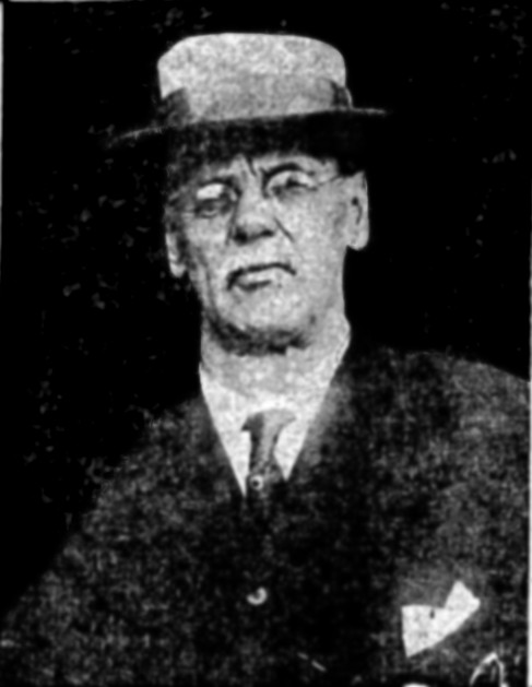 John Ward Westcott